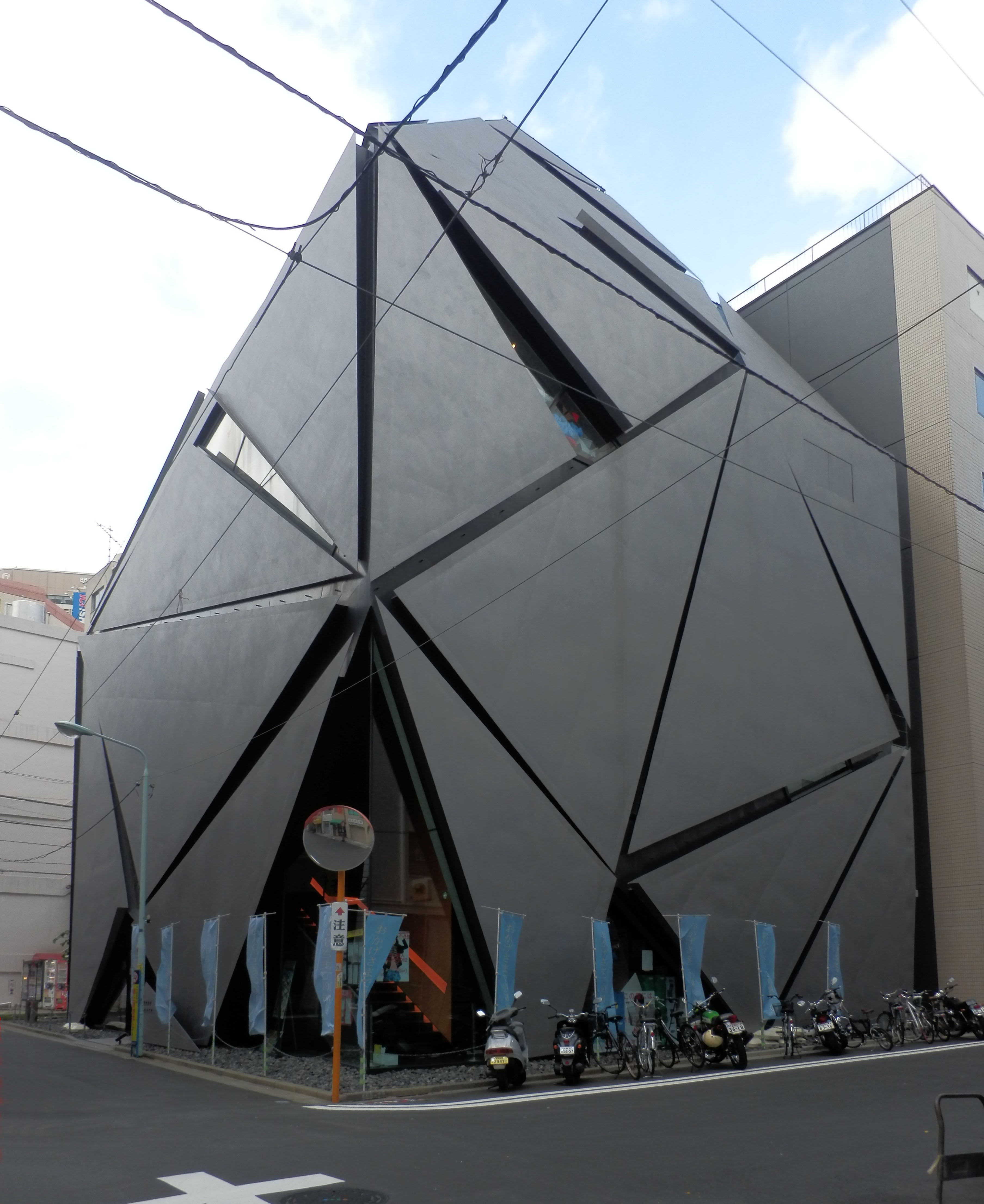 Jimbocho Theater Building (Tokyo, Japan)